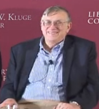 American astrobiologist George E. Fox at the John W. Kluge Center at the Library of Congress in 2016 on The Origins of the RNA World. Nathaniel Comfort convenes four distinguished scientists on-stage for a live oral history interview about the origins of the RNA world, the world at the dawn of life, before DNA, arising nearly four billion years ago.